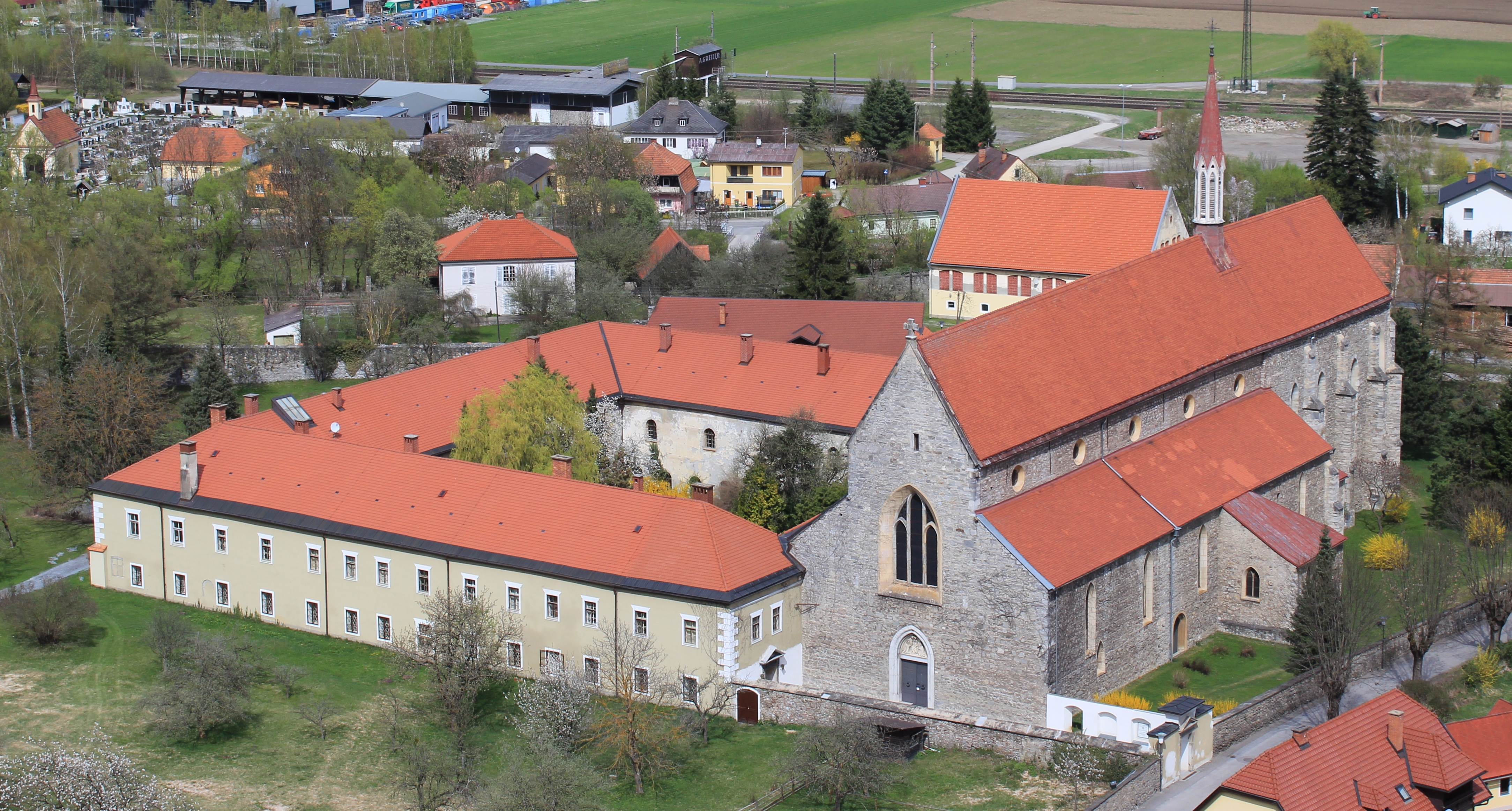 Dominican-Order-cloisterin Friesach